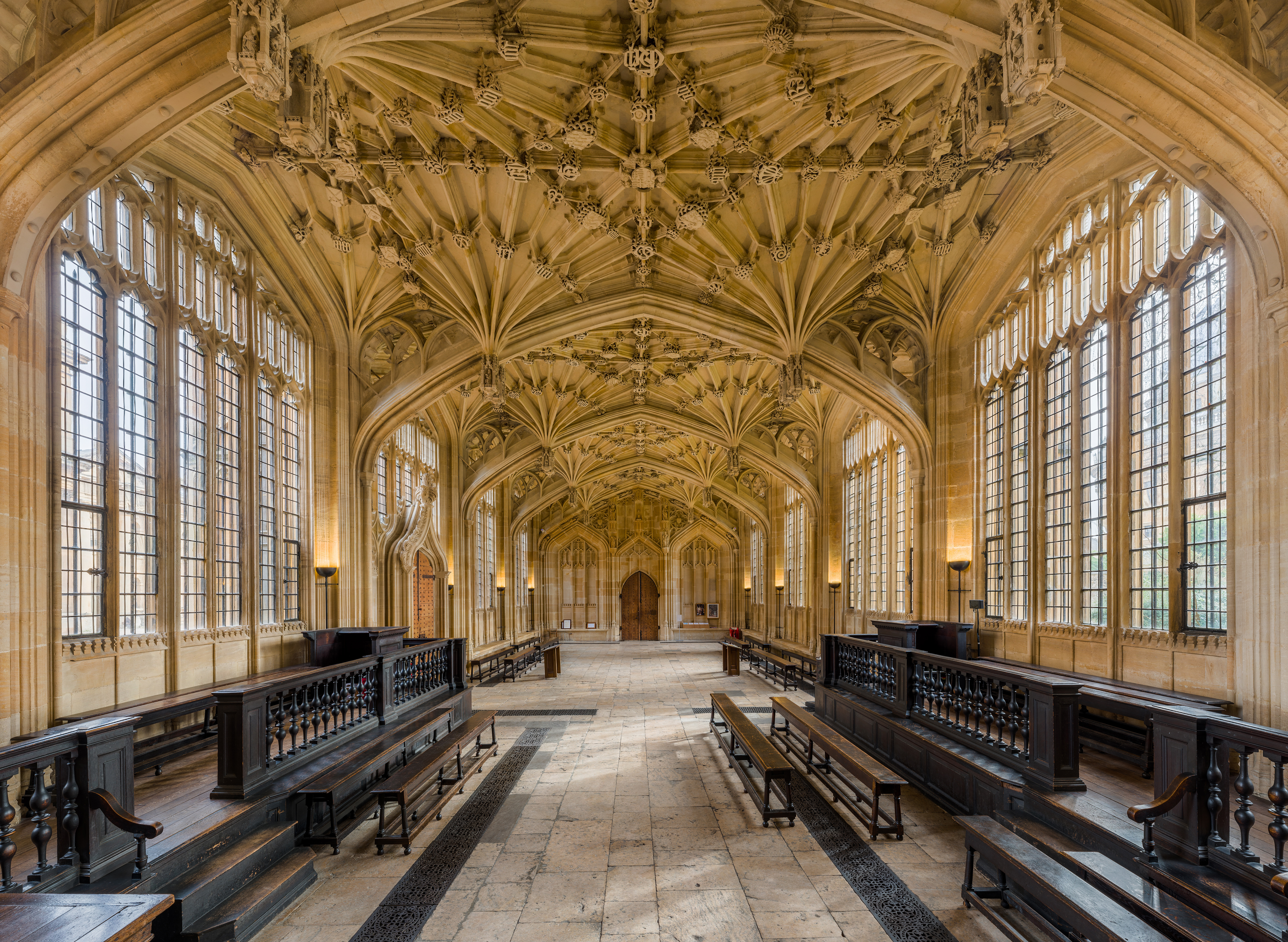 Looking east in the interior of the Divinity School in the Bodleian Library, Oxford, Oxfordshire, England.